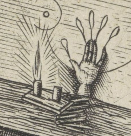 Main de gloire, detail of this image: Jacob meets magician Hermogenes.